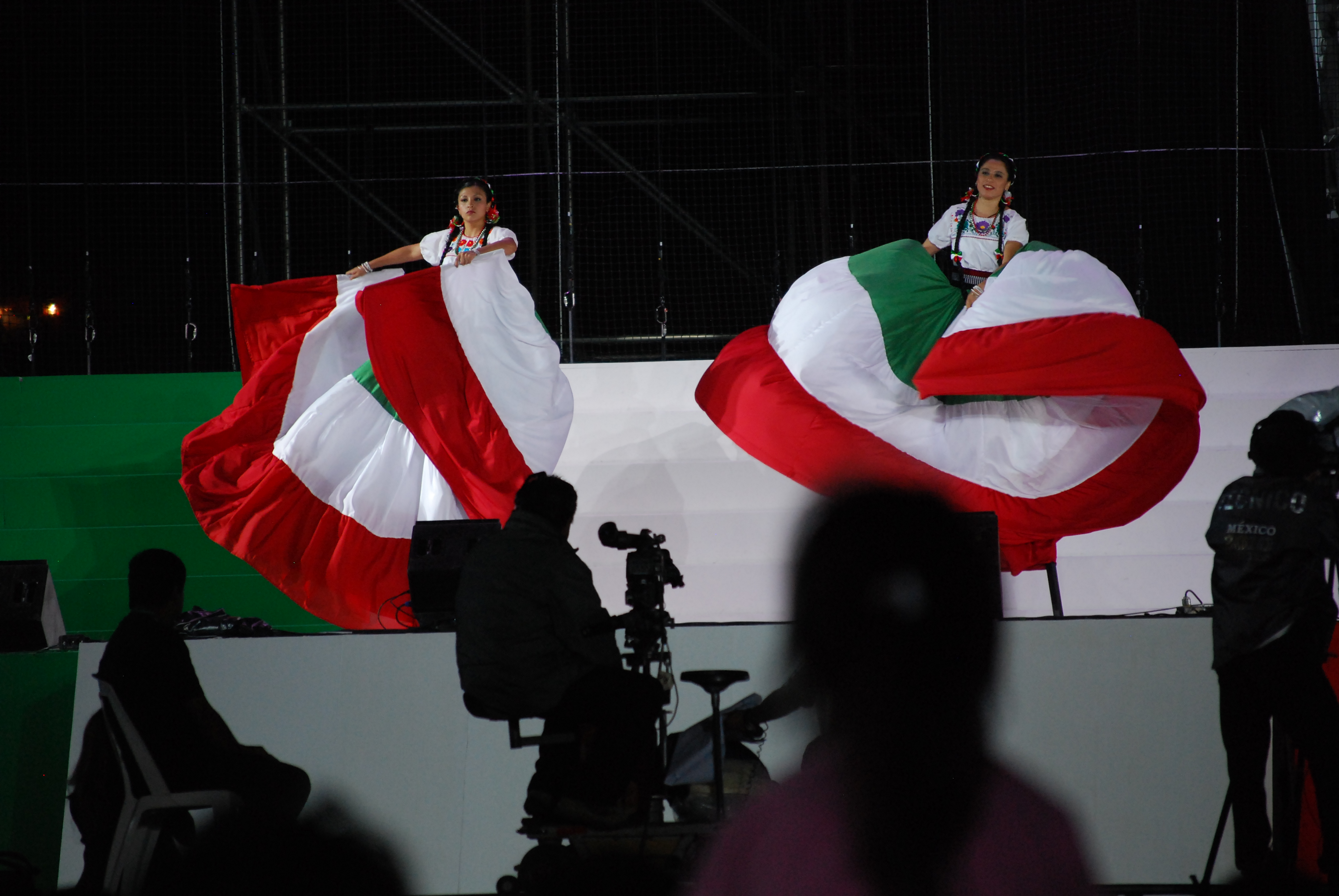 Women on stilts dancing on the northeast stage in the Zocalo before the Grito 2010